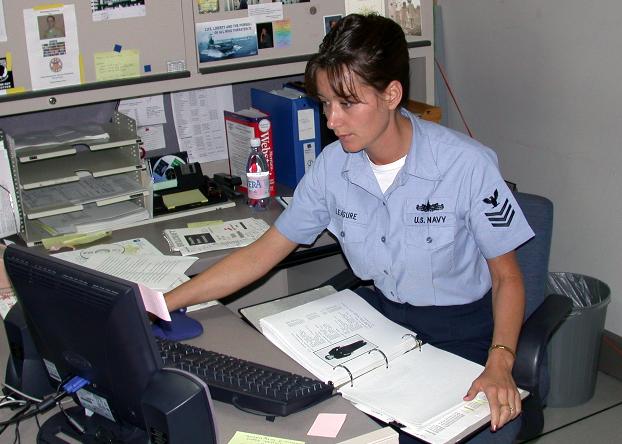 Naples, Italy (June 18, 2003) -- Information Systems Technician 1st Class Annette Leasure from New Castle, Ind., takes a few minutes to fill out the BUPERS Online Uniform Survey Questionnaire with a copy of "U.S. Navy Uniform Regulations" in hand. Sailors fleetwide have until July 8 to complete the survey for Task Force Uniform, which can be found online at . U.S. Navy photo by JO2 Eric Brown. (Released)